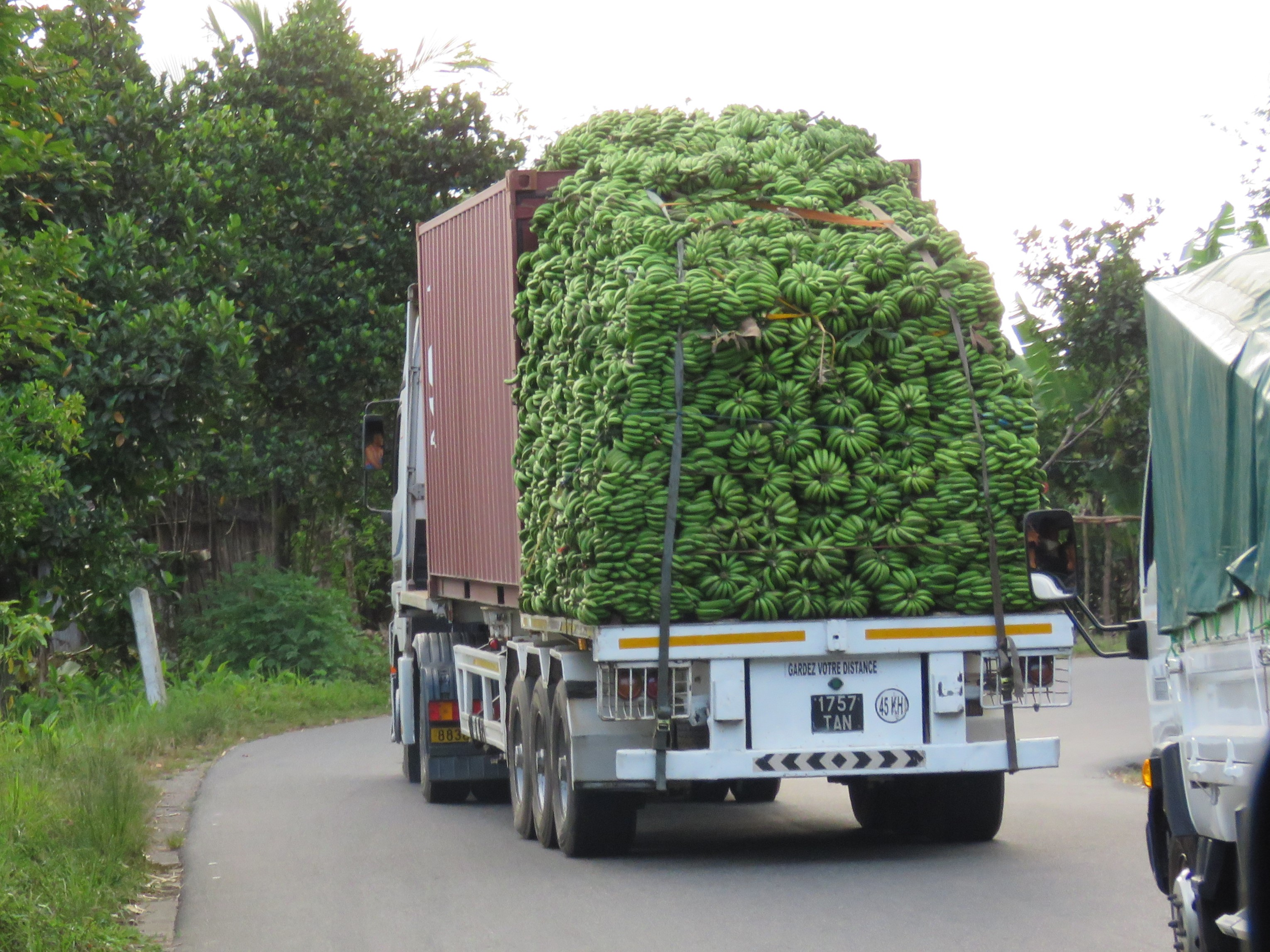 This is an image with the theme "Africa on the Move or Transport" from: Madagascar